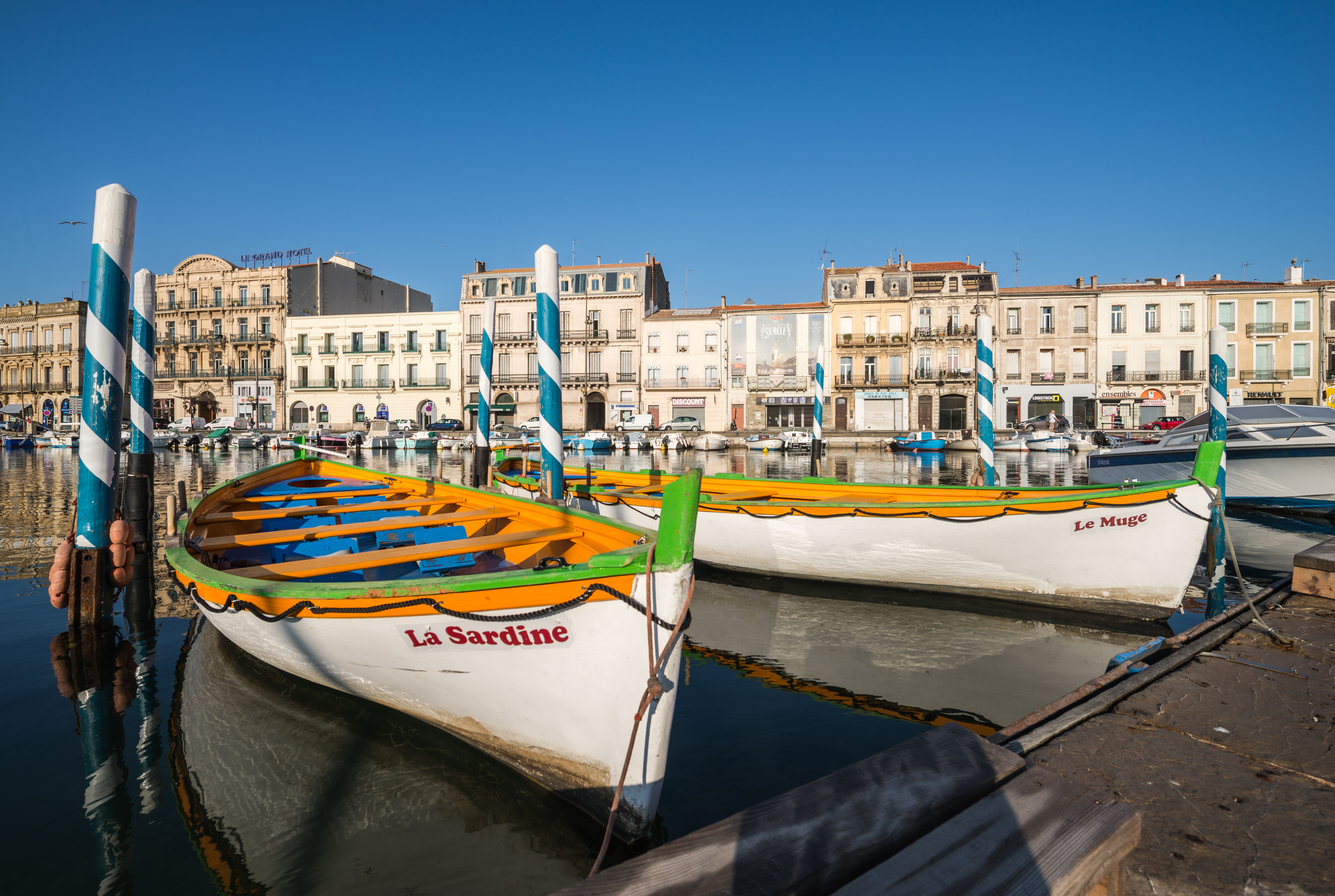 Boats in the Canal de Sète.Sète, Hérault, France.